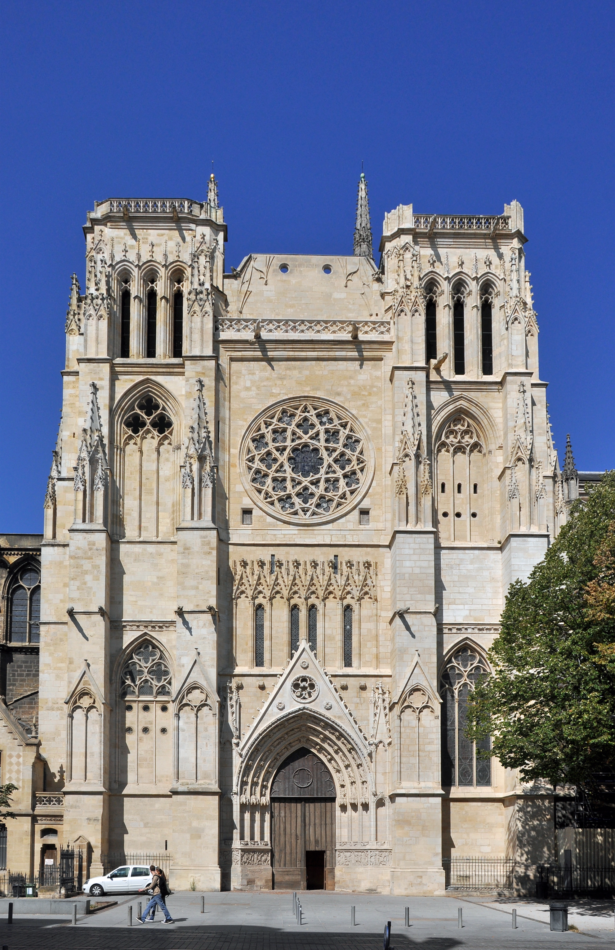 Bordeaux (France): St Andrews cathedral, southern part